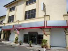 Bank Persatuan Sg. Petani.